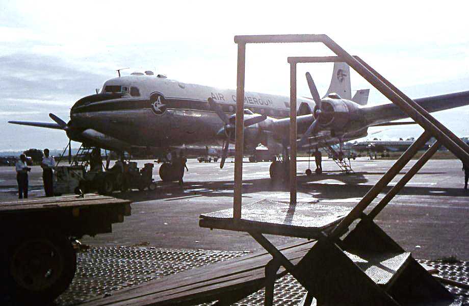 Douglas DC4 of Air Cameroun company This is an image with the theme "Africa on the Move or Transport" from: Cameroon